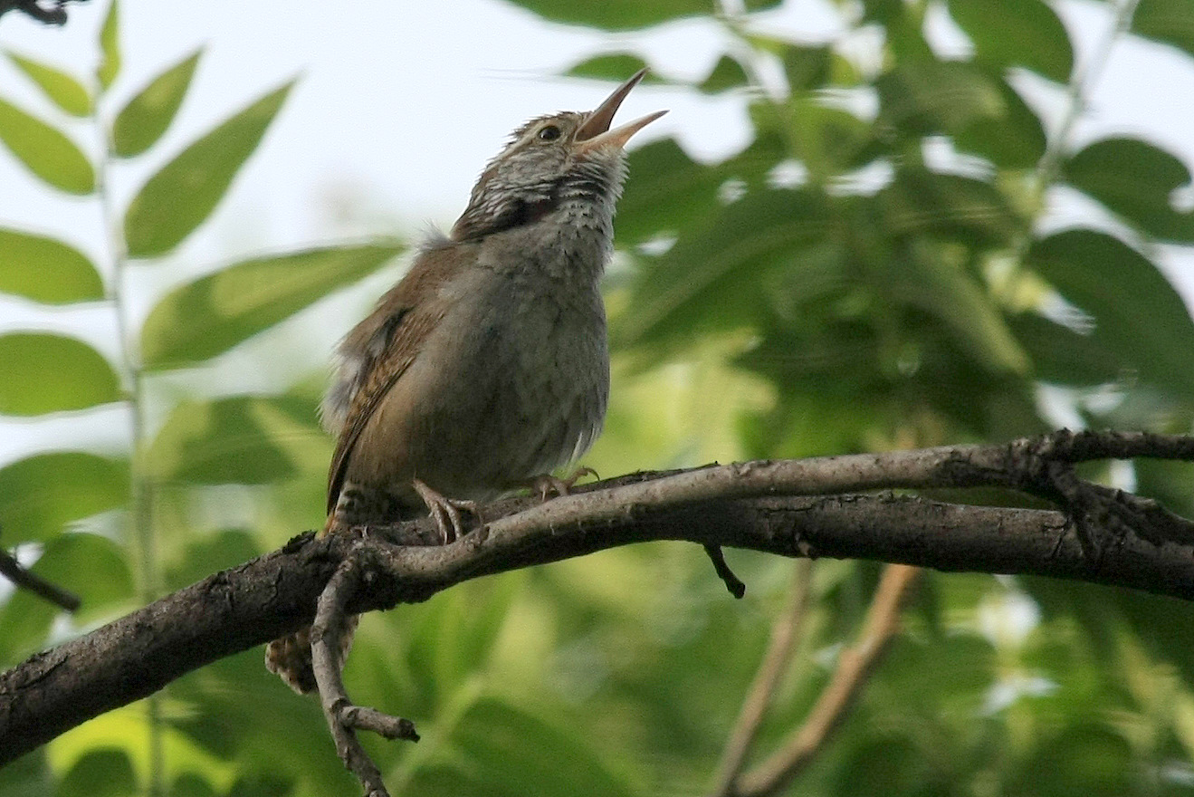 Thryothorus sinaloa, Santa Cruz Co., Arizona (first USA record).